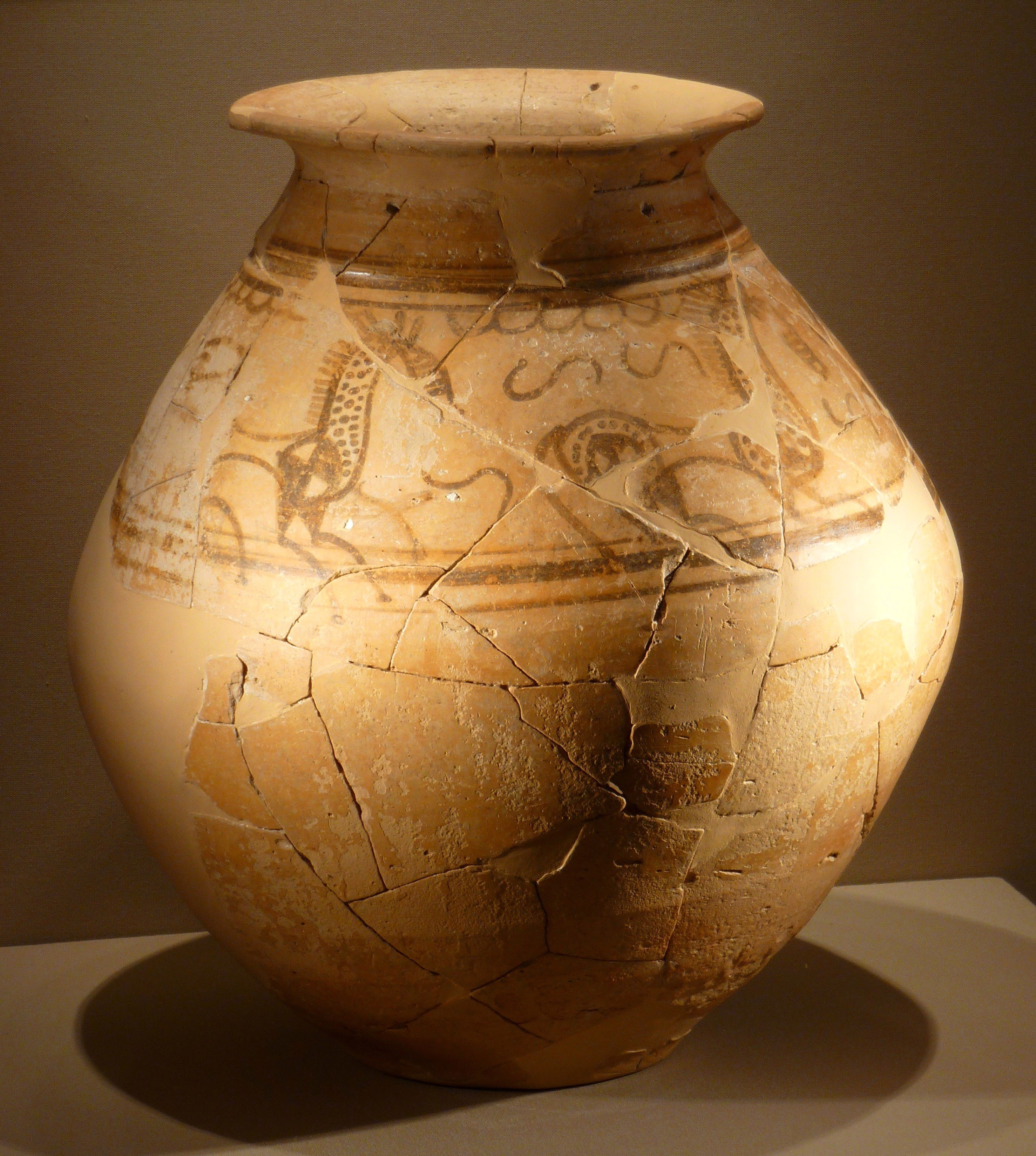 Horses Vase from El Llano de la Horca